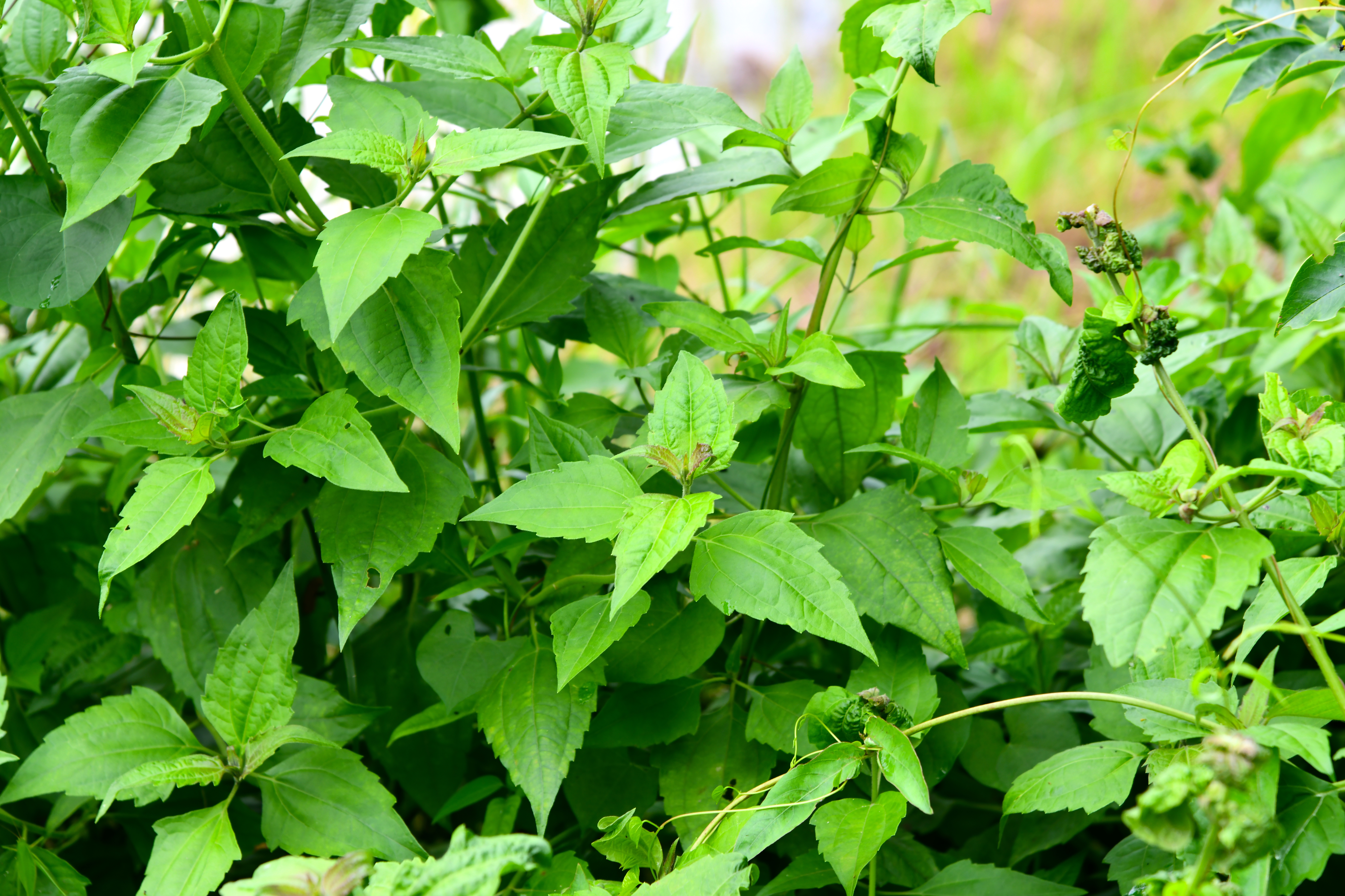 สาบเสือ สมุนไพรไทย Bitter bush, Siam weed from Thailand.